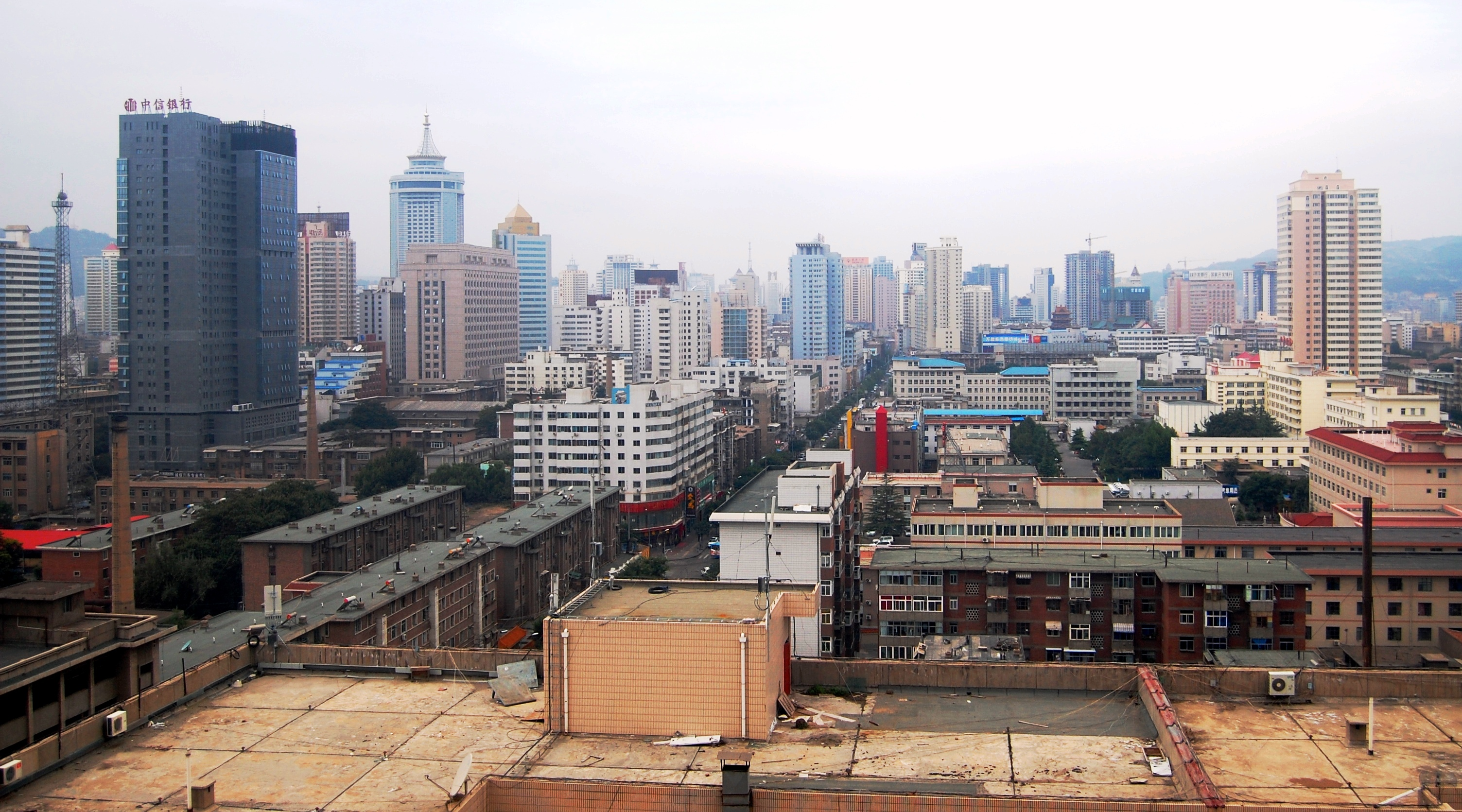 A view of Lanzhou